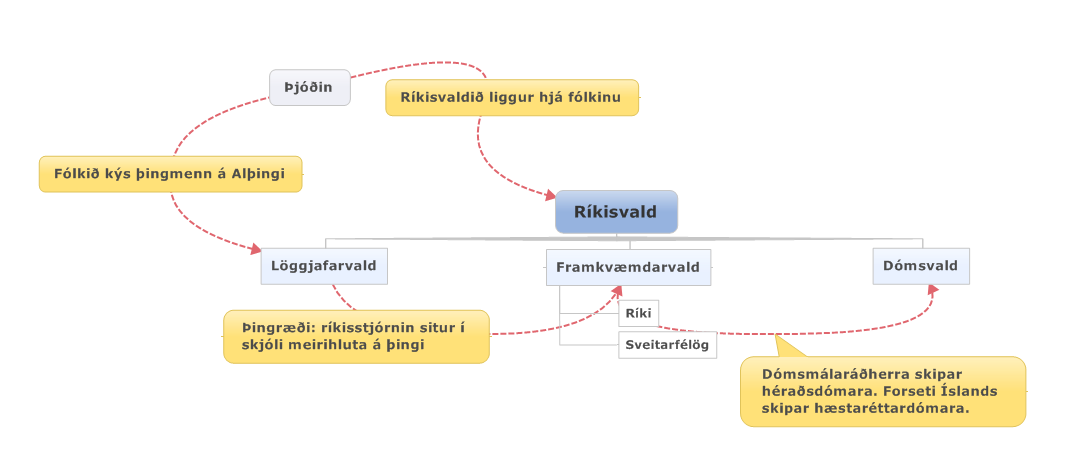 An infogram that shows the Icelandic seperation of powers and the relationship between each actor, including the parliamentary system of government, as well as the source, the people.